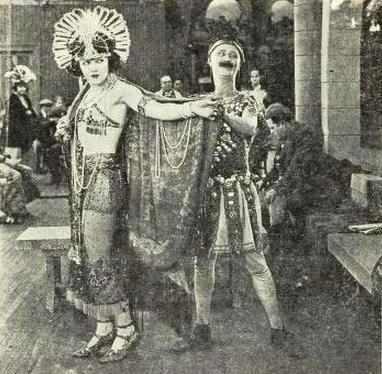 Still from the American comedy film A Small Town Idol with Ben Turpin and Marie Prevost, on page 1 of the February 2, 1921 Film Daily.